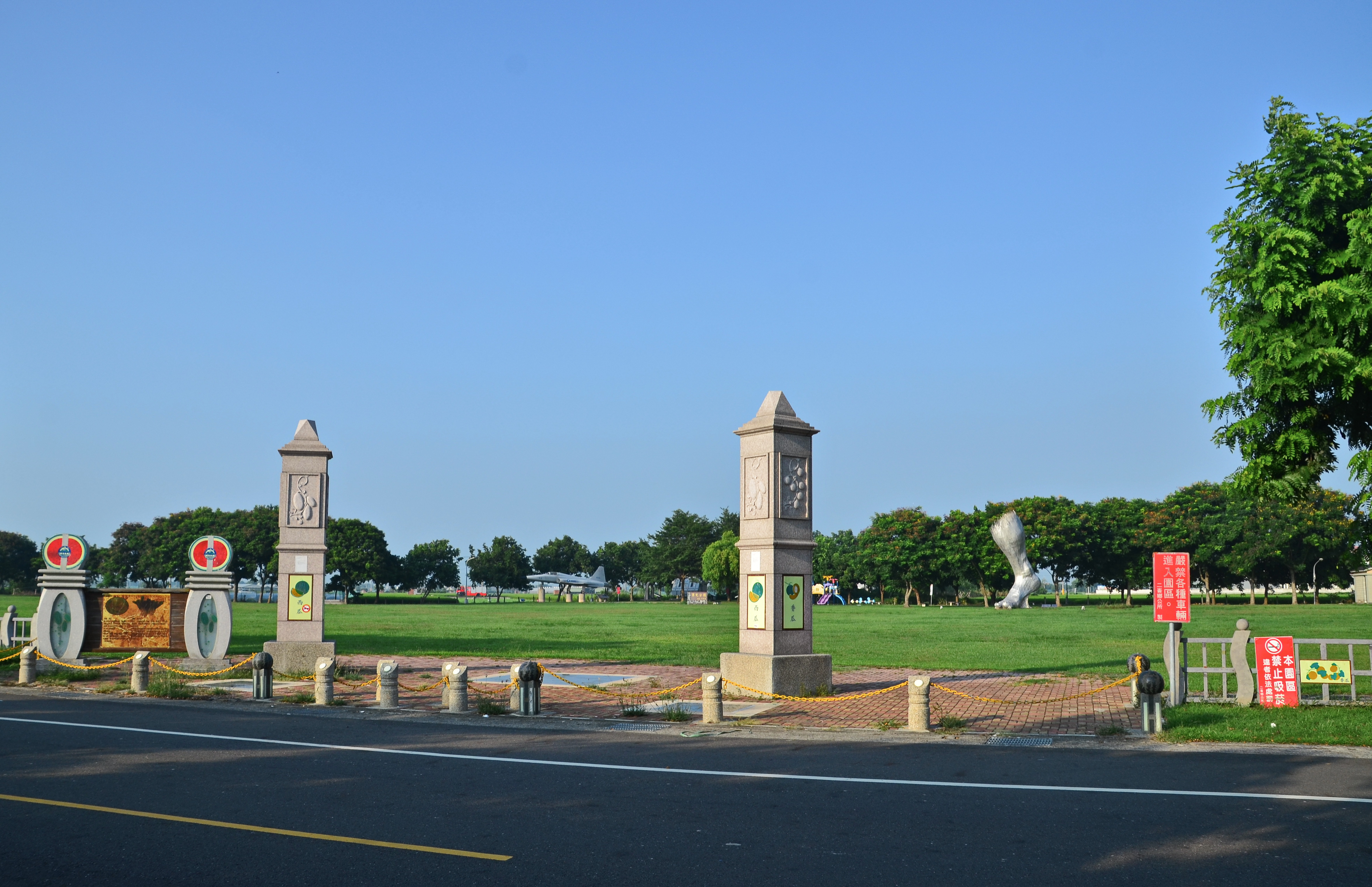 Erlun Sport Park, Yunlin County, Taiwan.